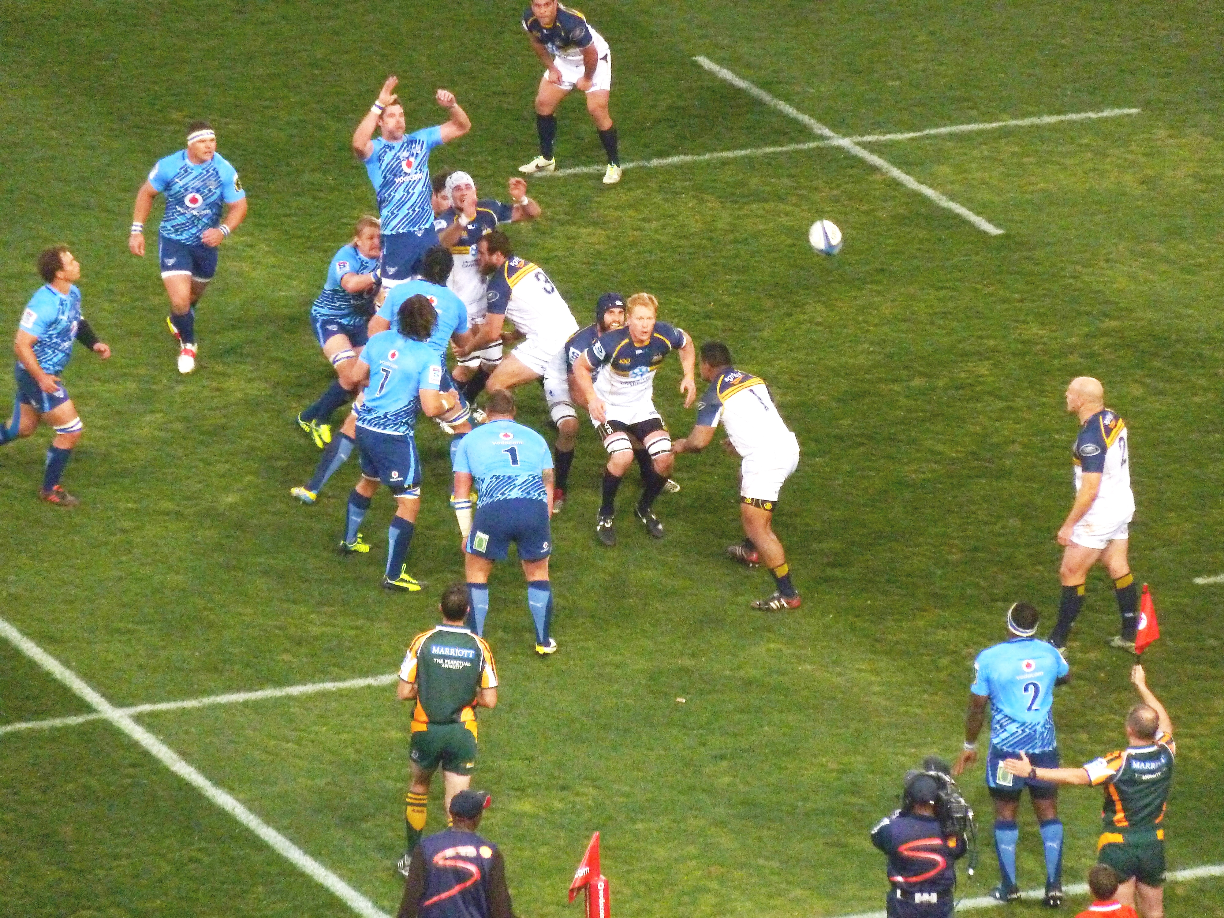 Line-out in Bulls vs Brumbies, Super Rugby semi-final at Loftus. The Brumbies would win the game 26:23.